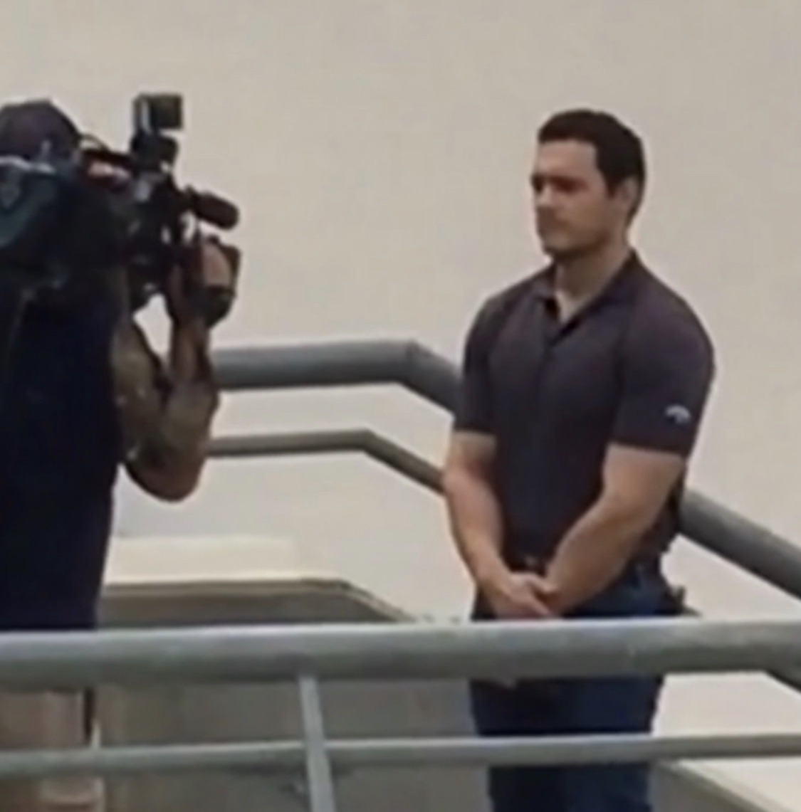 Taken across Buffalo Bayou of Romo reporting on flooding damage from previous rain event.